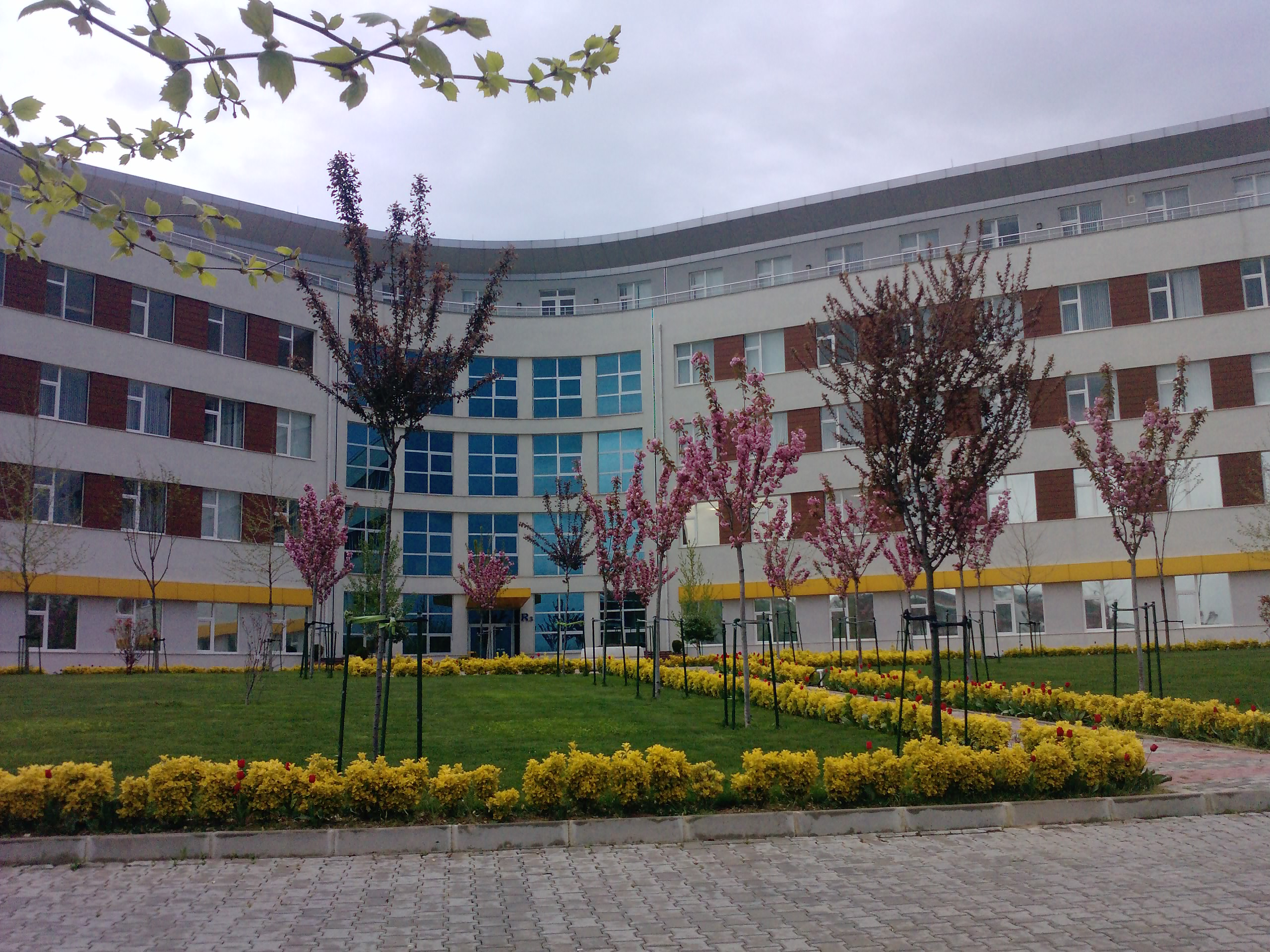 Main building, student affairs etc.